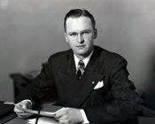 John Blatnik, US Representative from Minnesota